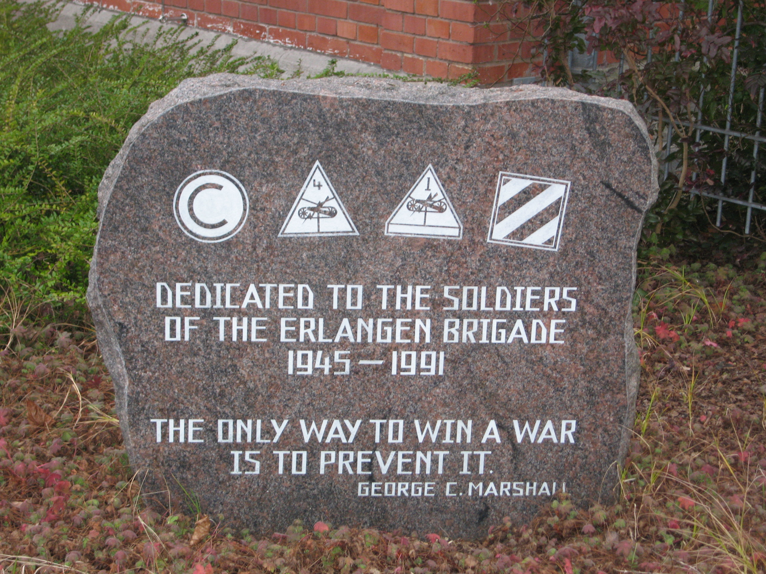 Ferris Barracks Memorial "to the Soldiers of the Erlangen Brigade 1945-1991" Carl-Thiersch-Straße Röthelheimpark Erlangen